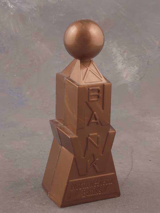 Plastic coin bank in the shape of the weatherball belonging to Northwestern National Bank of Minneapolis